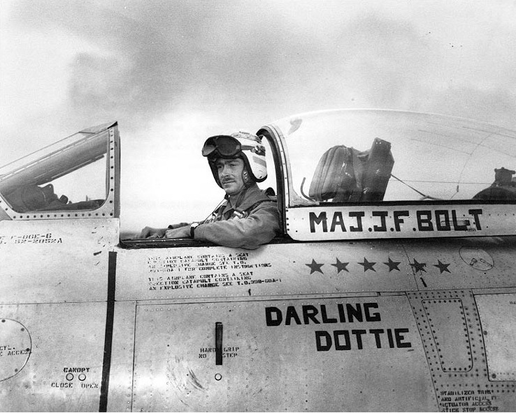 Maj. John F. Bolt, the USMC's first "Jet Ace", in F-86, 1953: Seated in a U.S. Air Force F-86E "Sabre" jet fighter. This plane is an F-86E-6, serial # 52-2852. Note pilot's name painted on the canopy frame, with victory stars and nickname "Darling Dottie" painted below. Photo is dated 13 July 1953, two days after Major Bolt shot down his fifth and sixth MiG-15s to become the only U.S. Marine Corps air "Ace" of the Korean War. He achieved the aerial victories while flying with the 5th Air Force as an exchange pilot. The original caption states: "Major Bolt, who shot down six Japanese planes during World War II, has flown 89 jet fighter-bomber missions with the 1st Marine Aircraft Wing, which has been assigned only close support and interdiction missions in Korea. He has flown 37 Saberjet sweeps with the 5th Air Force, which is carrying the air war to the MiGs.